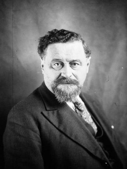 Portrait of the Occitan politician Enric Fontanièr.